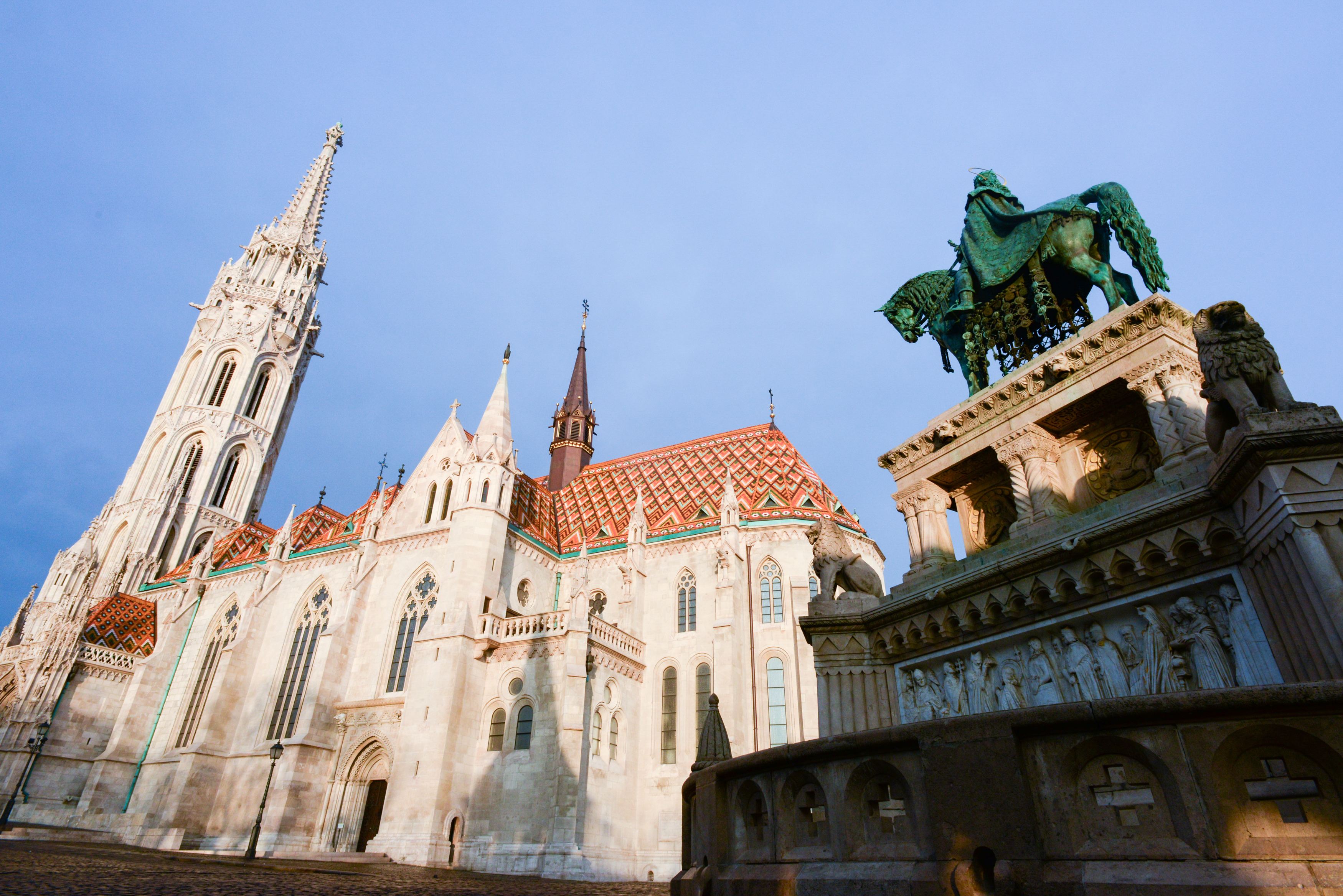 Statue of St Stephen near St. Mattias Cathedral Budapest, Hungary, Eastern Europe, 5 January 2014.